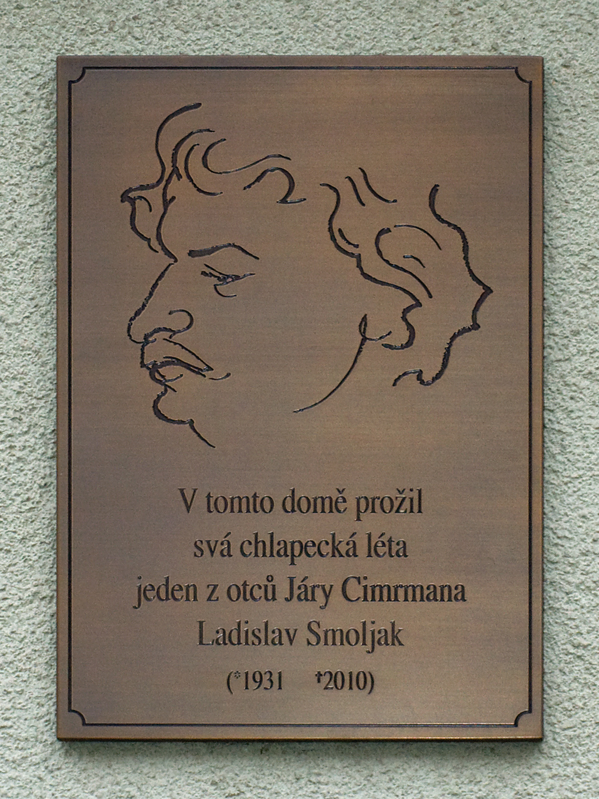 Plaque to Ladislav Smoljak, co-author of Jára Cimrman, on the house in Prague where he lived as a boy